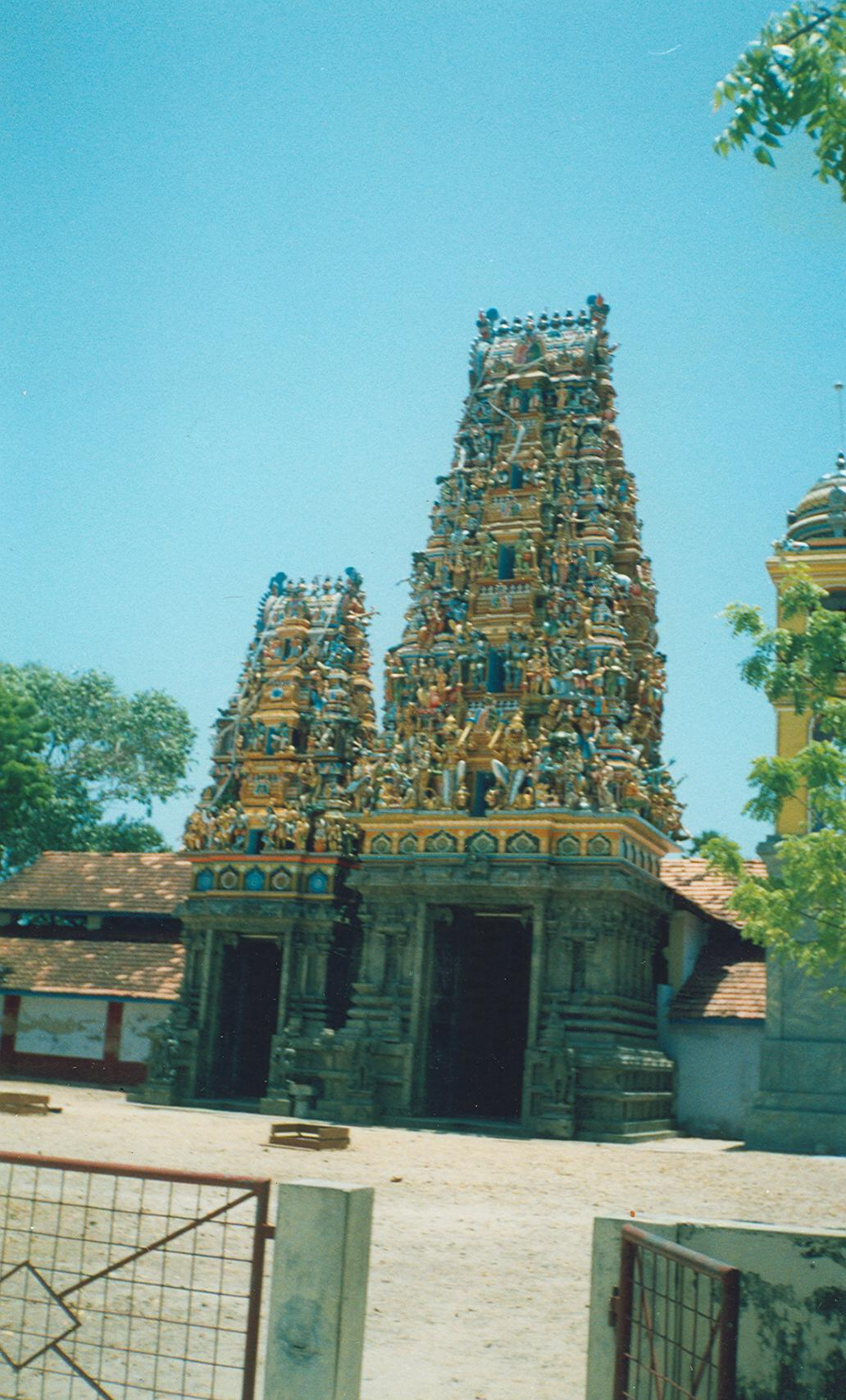 Front side view of Eelathu Sithamparam